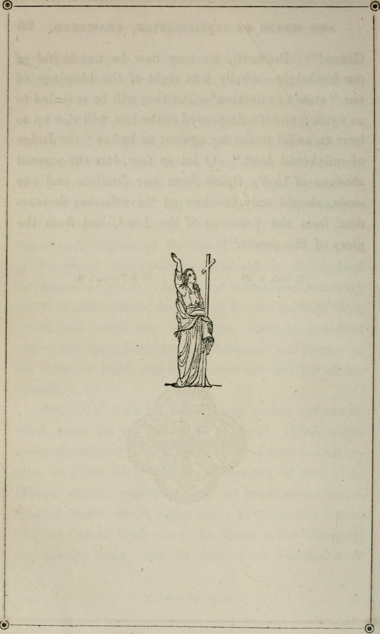 Title: "The apostles doctrine and fellowship." Five sermons preached in the principal churches of his diocese, during his spring visitation, 1844 Year: 1844 (1840s) Authors: Ives, L. Silliman (Levi Silliman), 1797-1867 Subjects: Episcopal Church Publisher: New-York, D. Appleton & Co. Philadelphia, Geo. S. Appleton Text Appearing Before Image: ®- ® Text Appearing After Image: ® SERMON IV CONFIRMATION, A MEANS OF GRACE INSTITUTED BYALMIGHTY GOD. ®